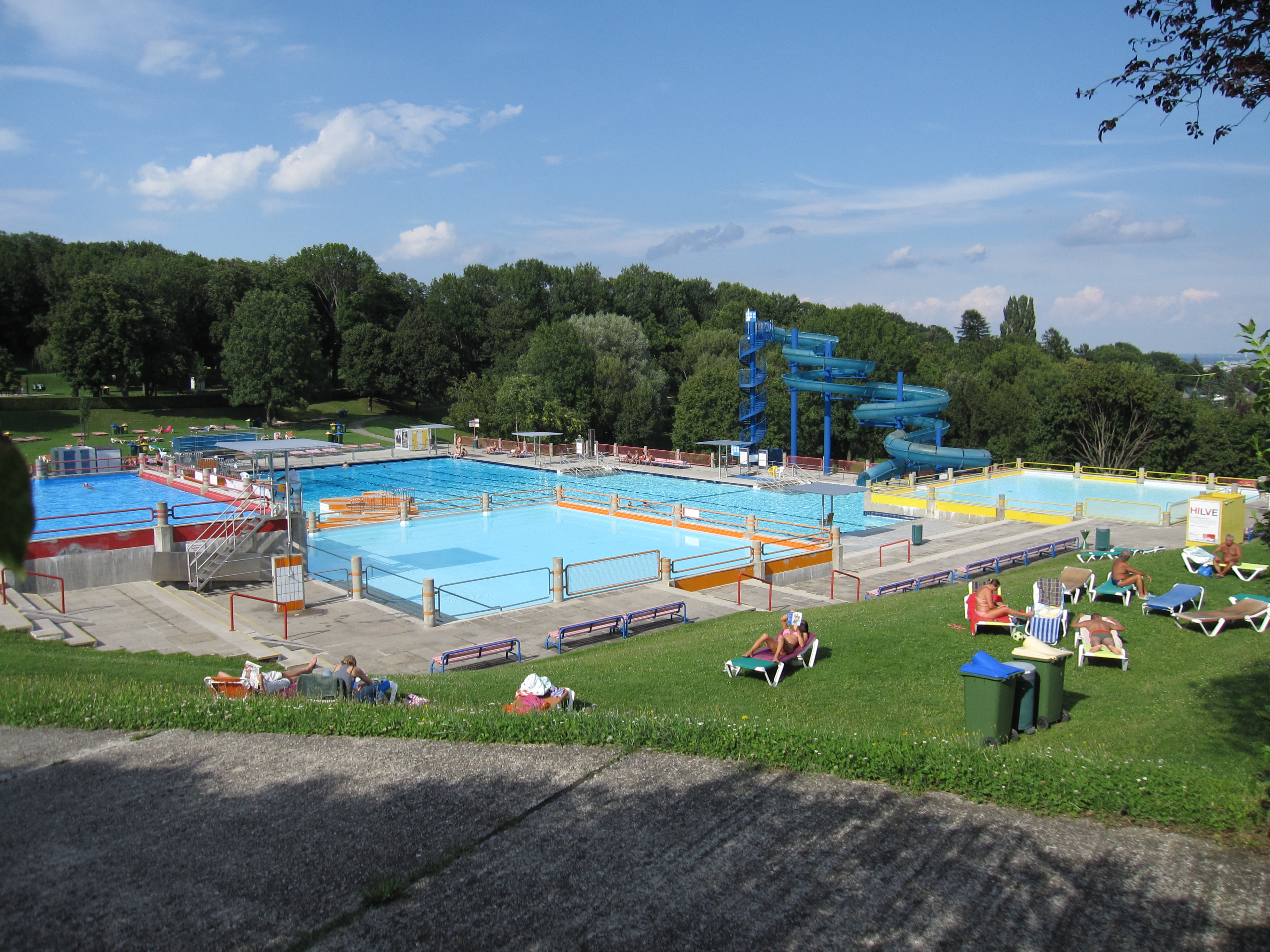 Schafbergbad in Währing., Vienna.